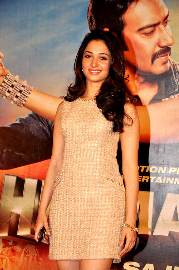 Tamannaah at trailer launch of 'Himmatwala'